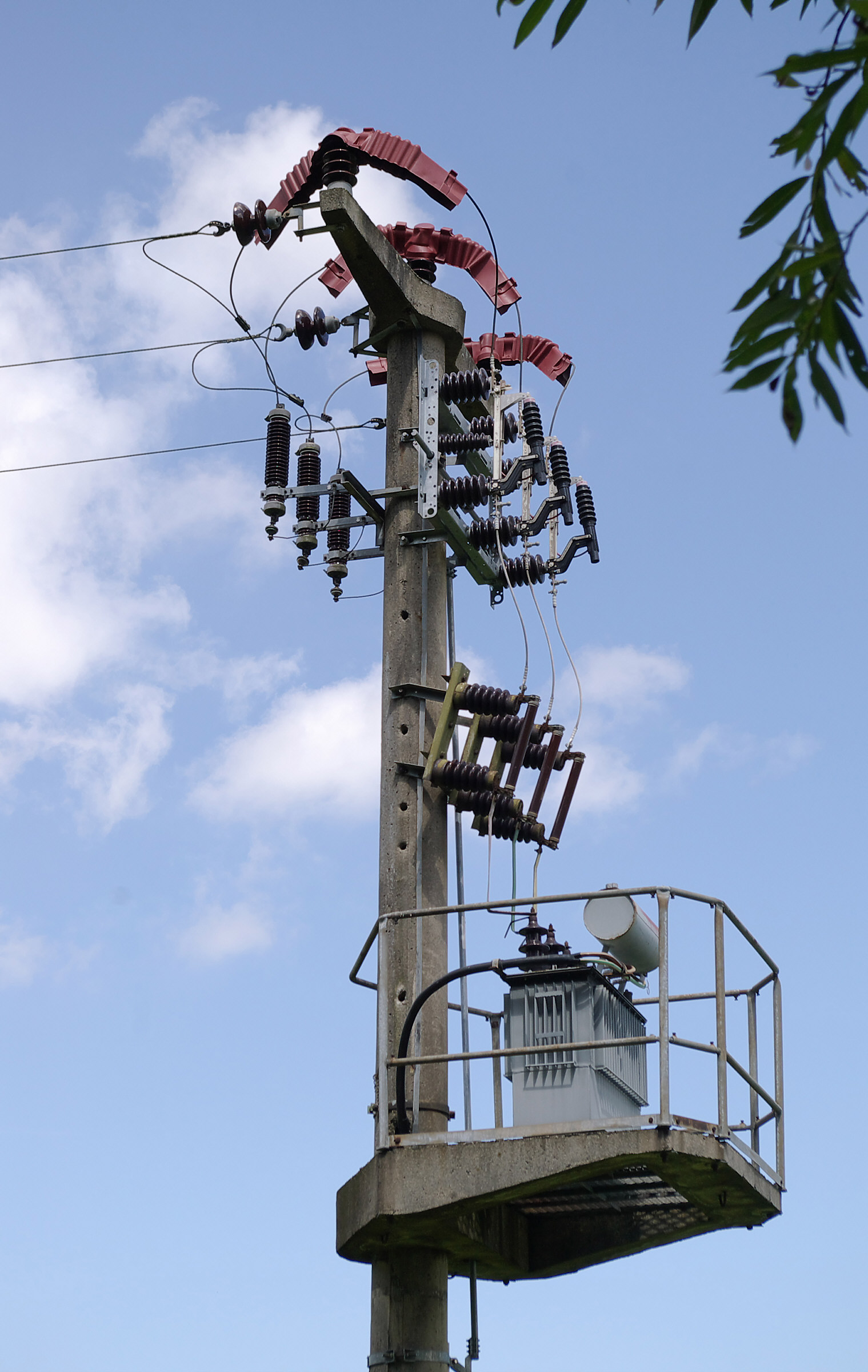 Three phase transformer station on concrete pole, with isolating protective caps ("Storchenschutz" ~bird protection) over the standoff insulators at the top of the pole. Above the transformer on the right side of the pole is a load disconnecting switch, which can be operated via the linkage by a lever at the bottom of the pole. Above the transformer is an expansion tank for the coolant. At the left of the pole under the wires is a surge diverter for lightning protection. Poseritz (Germany).